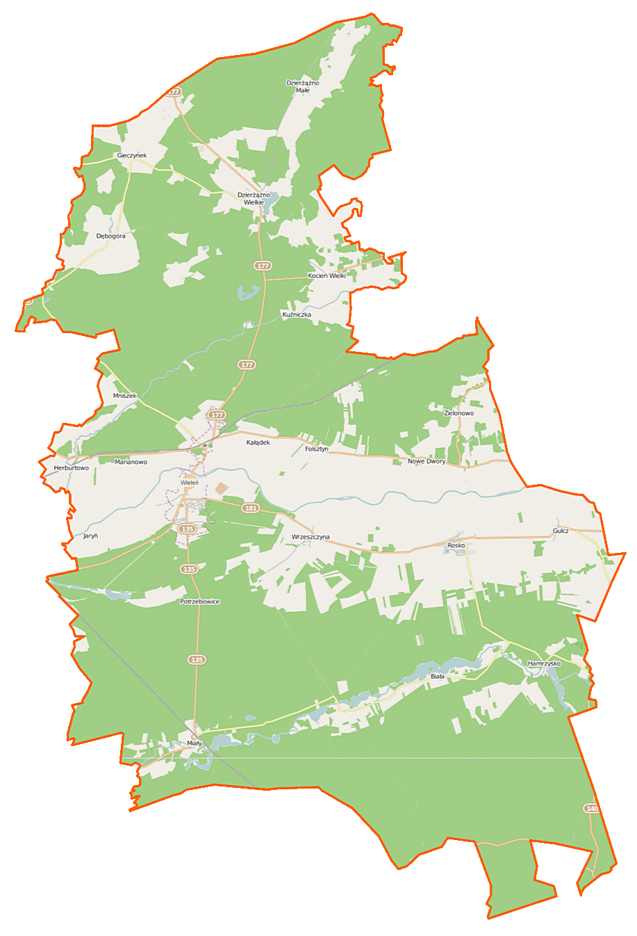 Map of Gmina Wieleń, Poland This map of Wieleń (gmina) was created from OpenStreetMap project data, collected by the community. This map may be incomplete, and may contain errors. Don't rely solely on it for navigation. Border coordinates53.053416.0672←↕→16.417052.7436